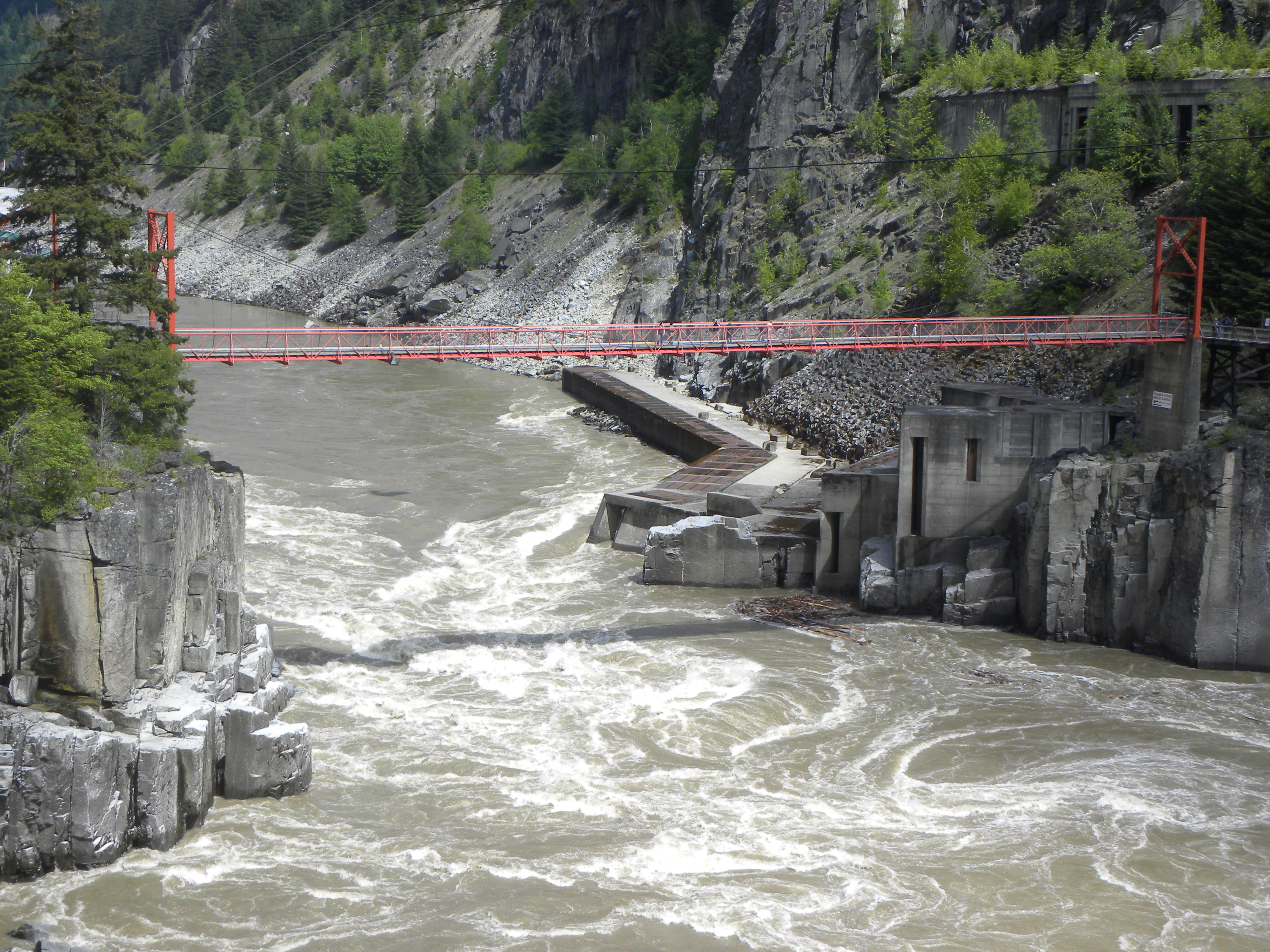 Hell's Gate, British Columbia, taken from Rocky Mountaineer Train